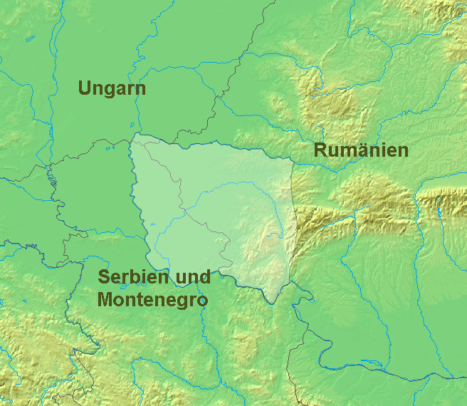 Based on a public domain map from